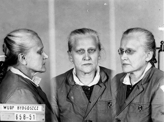 Zofia Franio (1899-1978) –Polish physician, during II WW soldier of Polish Armia Krajowa, after the war in underground anti-communist organisation Freedom and Independence (WiN), arrested, political prisoner 1946-56. Righteous Among the Nations (1971). Mug shot after arrest by communist Ministry of Public Security